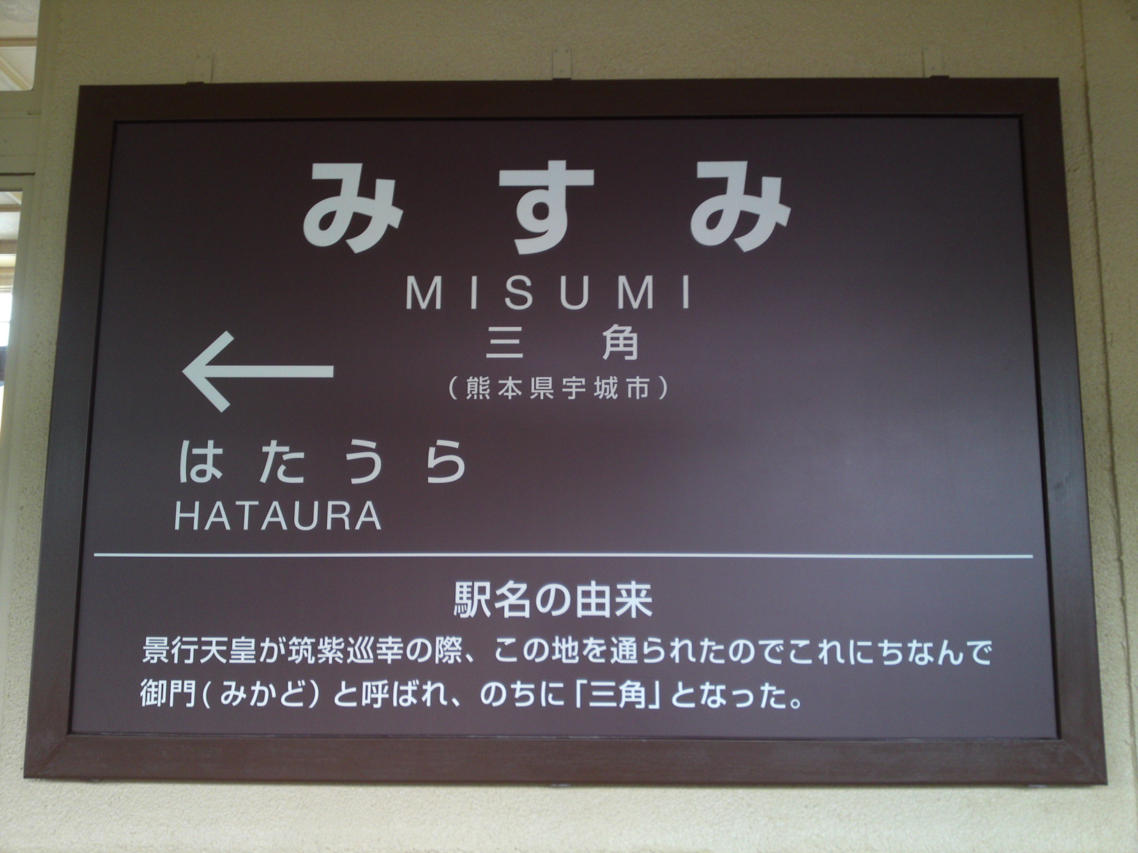 Misumi Station sign in use since 2011